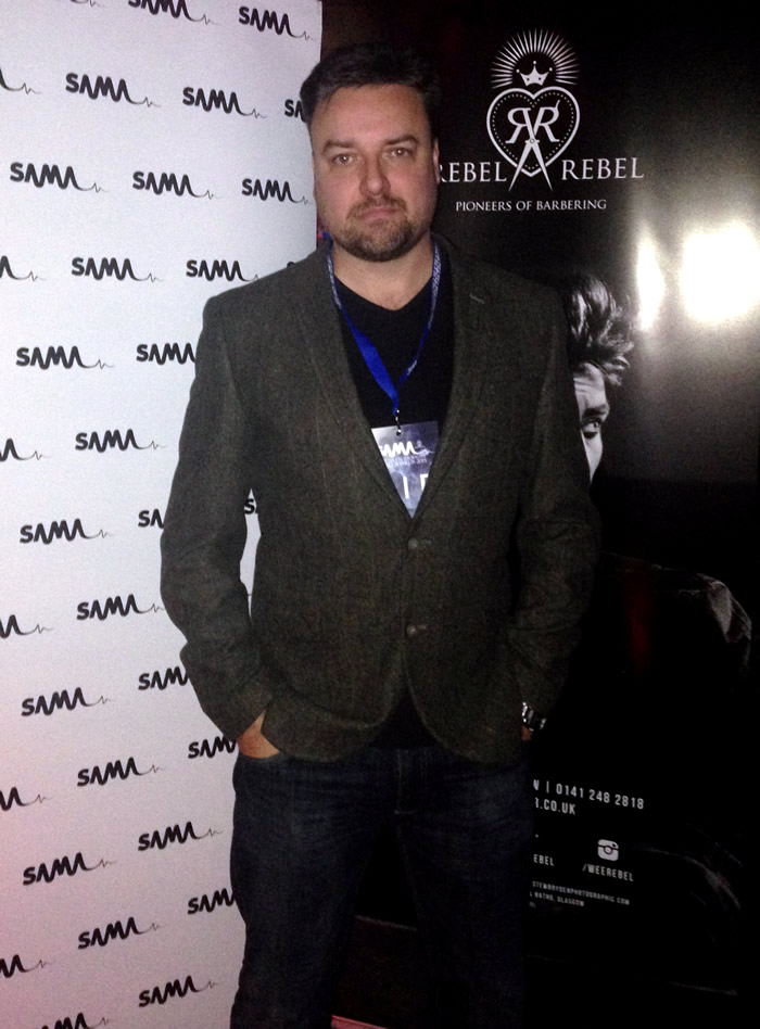 JD Allan at the Scottish Alternative Music Awards 2015.